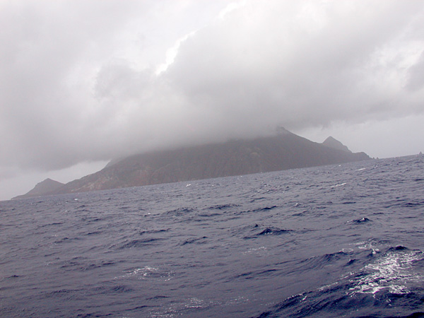 Saba, as seen from the east. Image taken by Clark Anderson/Aquaimages.